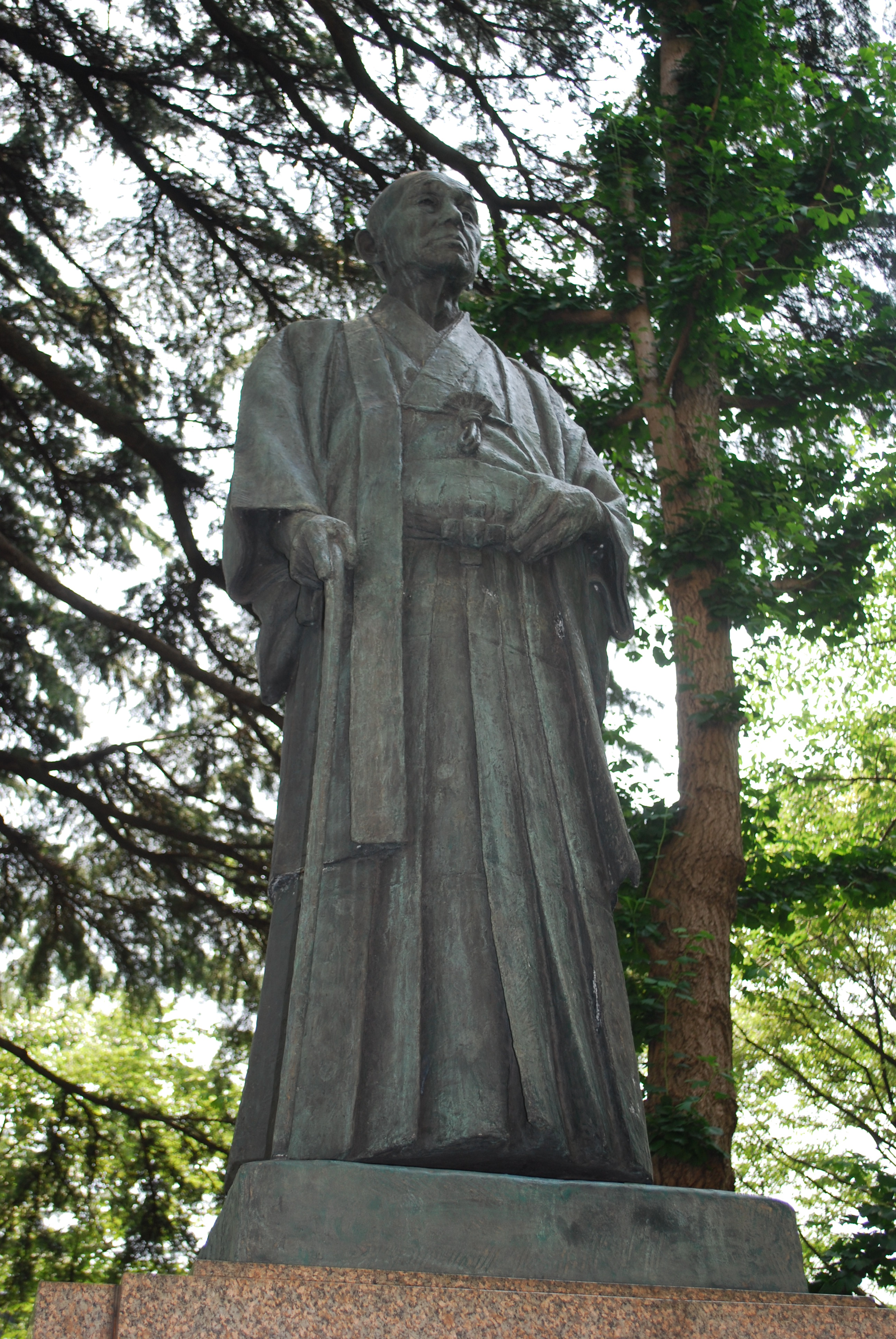 Kawaguchi Tamenosuke,Chiba-city,Japan